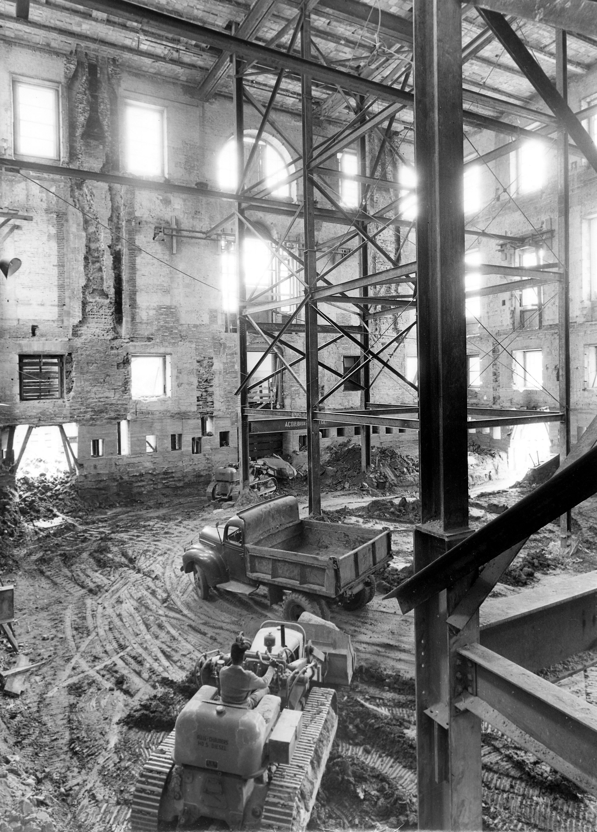 General notes: Window openings provide bursts of light into the cavernous interior of the White House, supported only by a web of temporary steel supports. The exterior walls rest on new concrete underpinnings, which allow earth-moving equipment to dig a new basement.